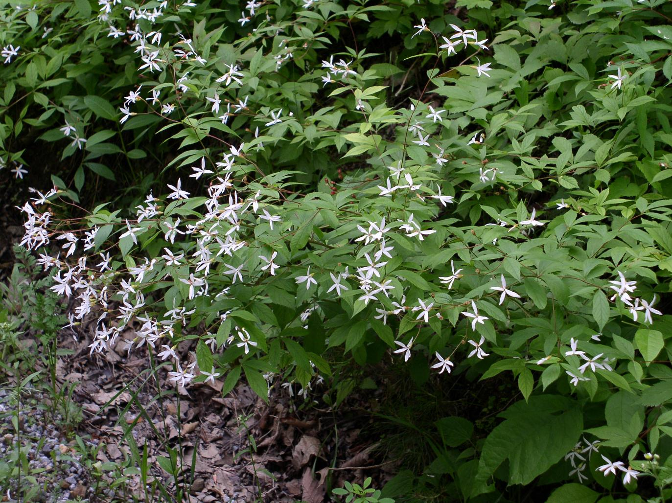 Gillenia trifoliata on a shaded roadside bank, Dolly Sods Wilderness, West Virginia.